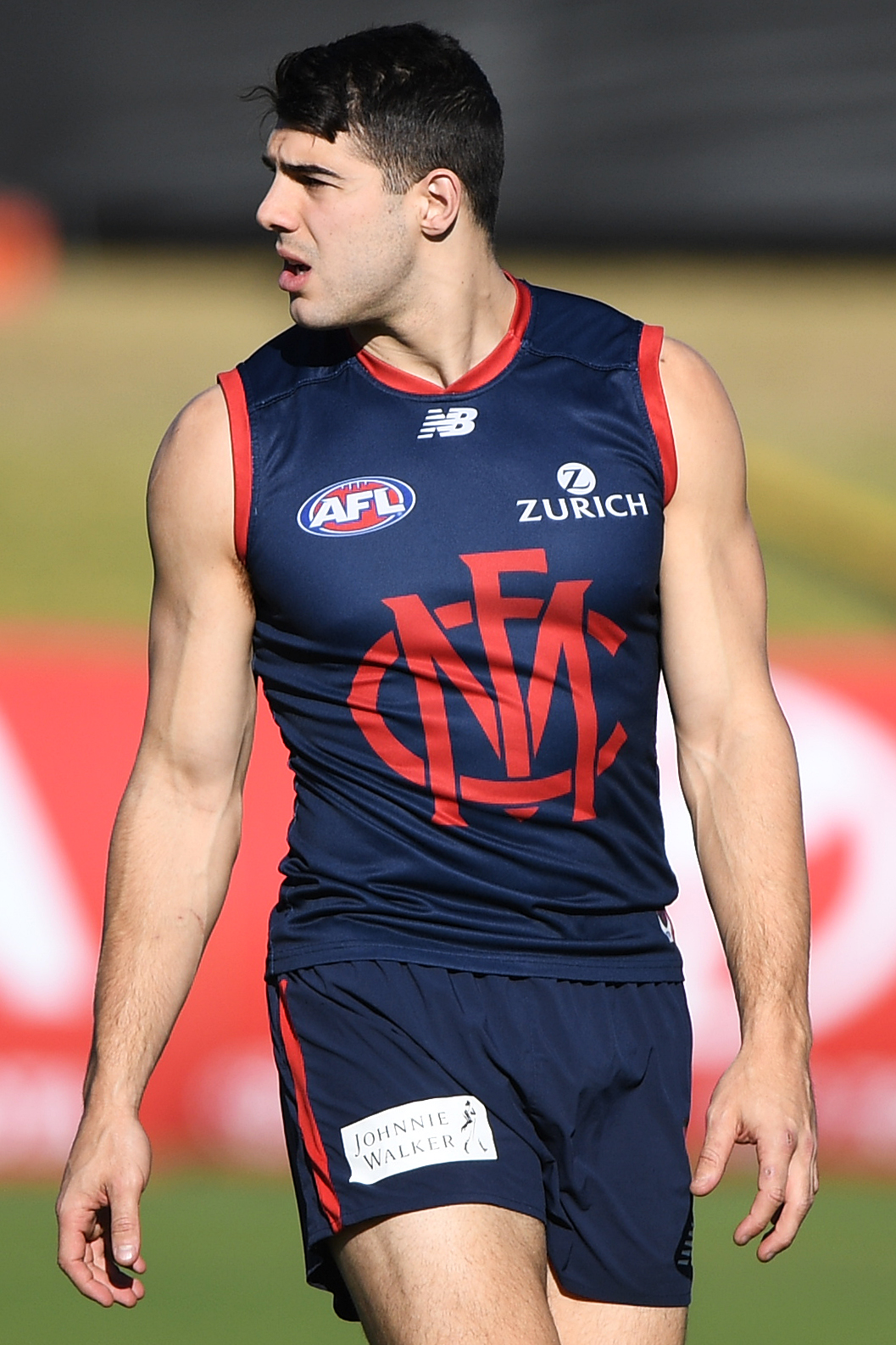 Christian Petracca of Melbourne during Melbourne training at Traeger Park on Saturday, 20 July 2019 in Alice Springs, Northern Territory.